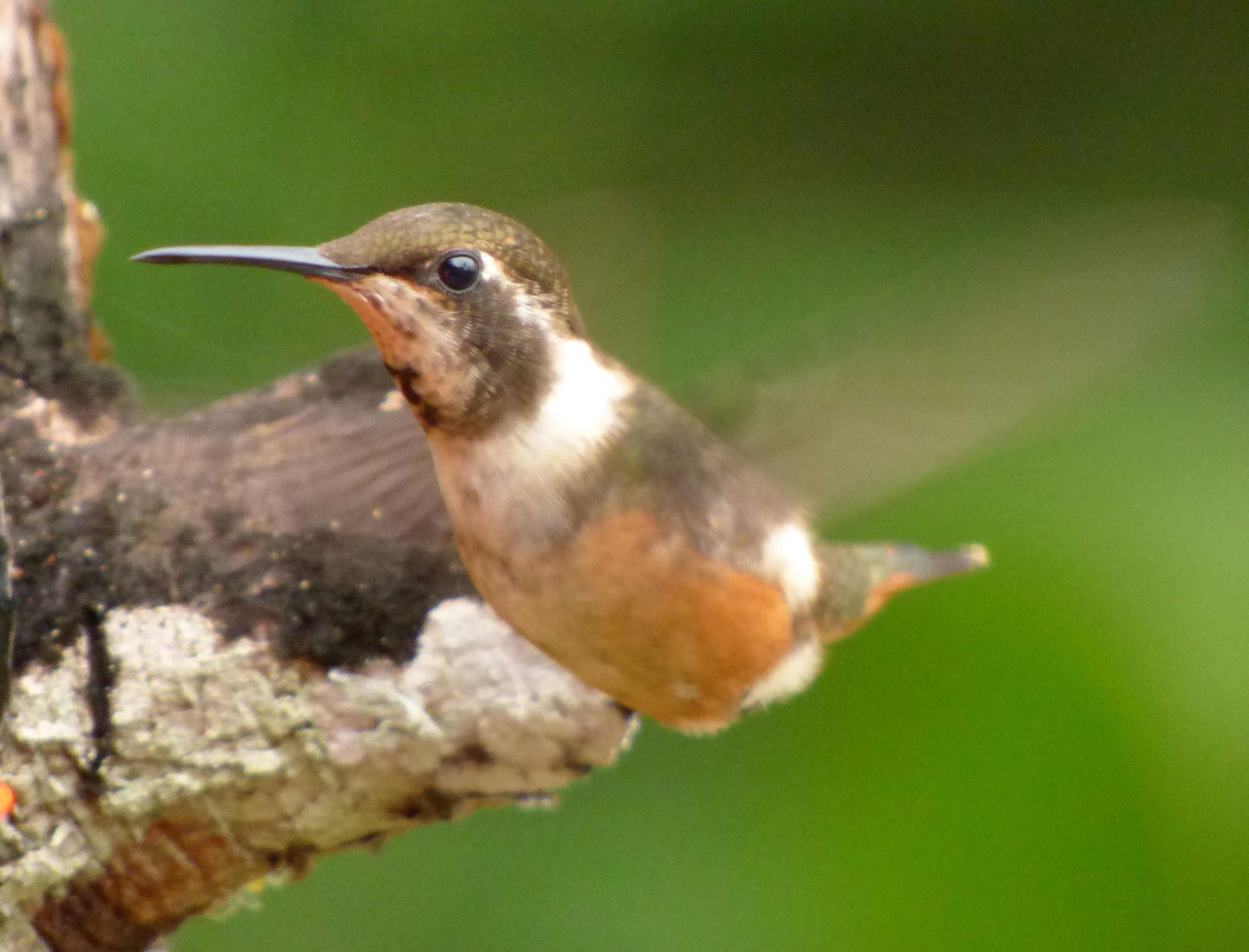 Calliphlox mitchelii (Zumbador pechiblanco) - Hembra